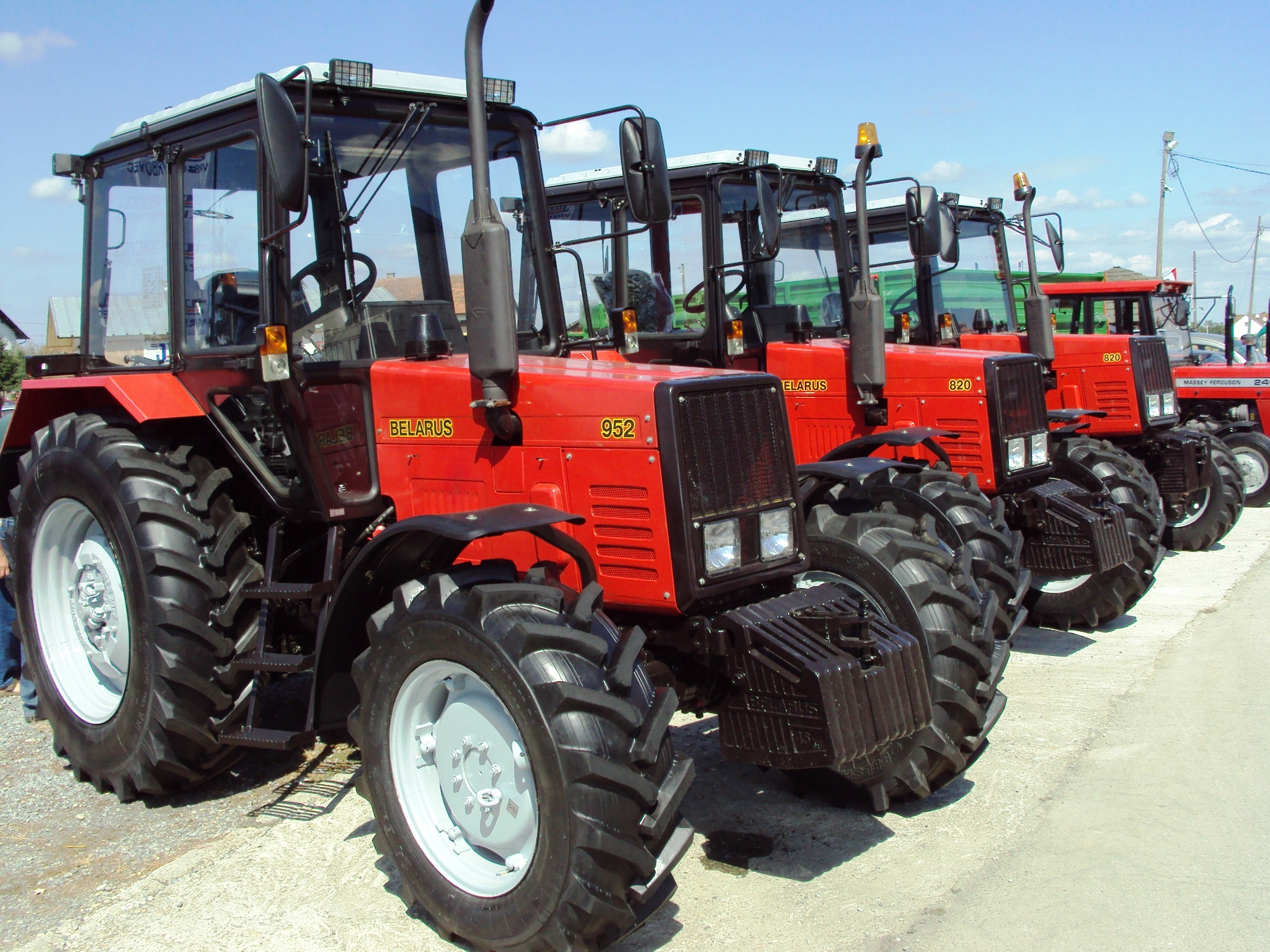 Trcators Belarus - Agriculture Fair in Bjelovar, Croatia